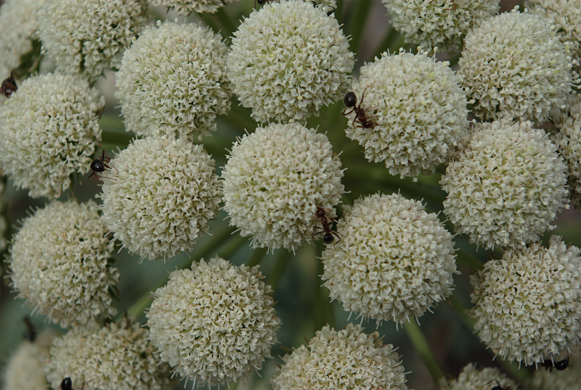 Flowers of Seseli gummiferum, a kind of mooncarrot, my garden, Española, New Mexico. The clusters are about 1 cm across.